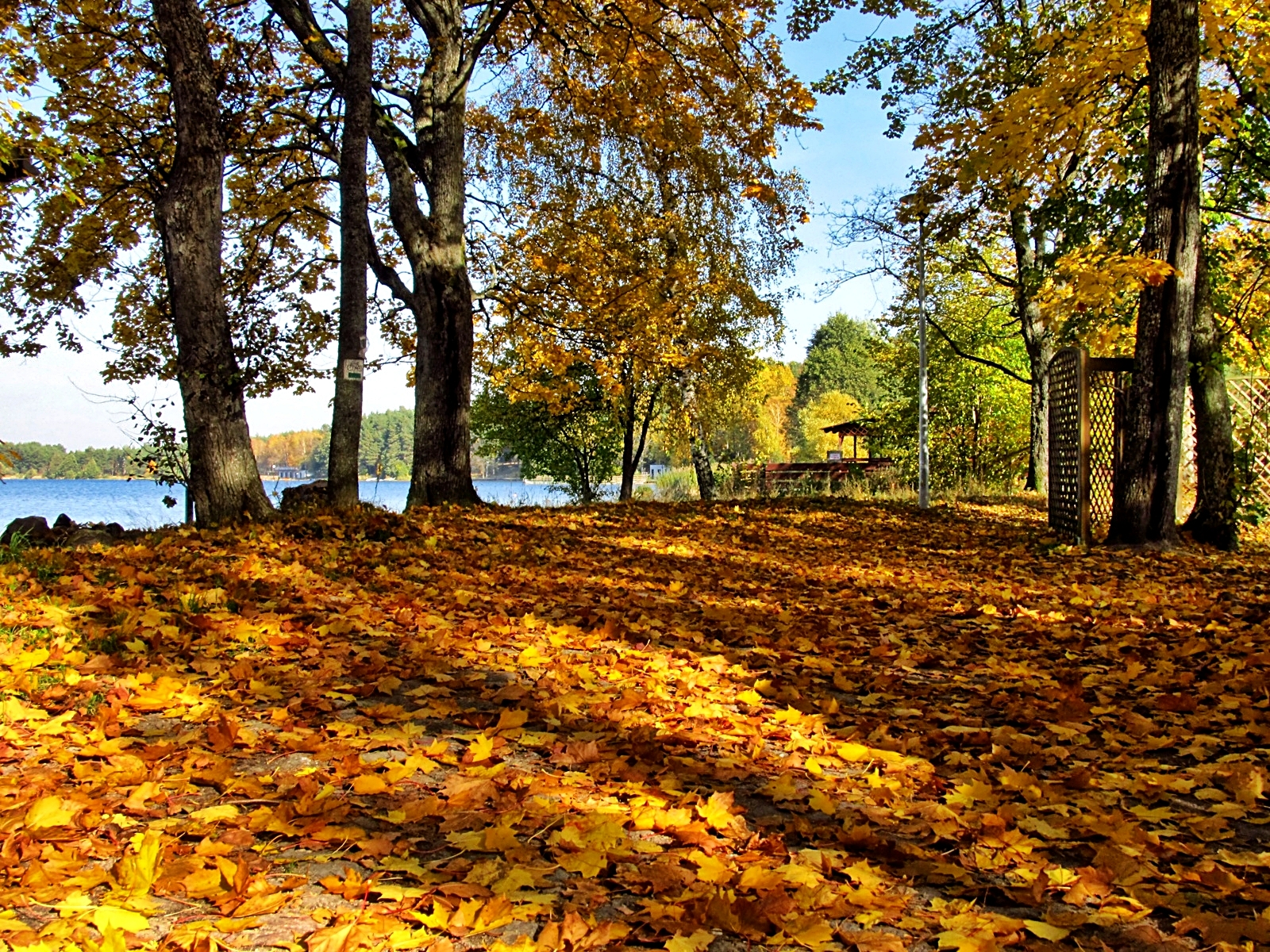 Autumn alley by the lake